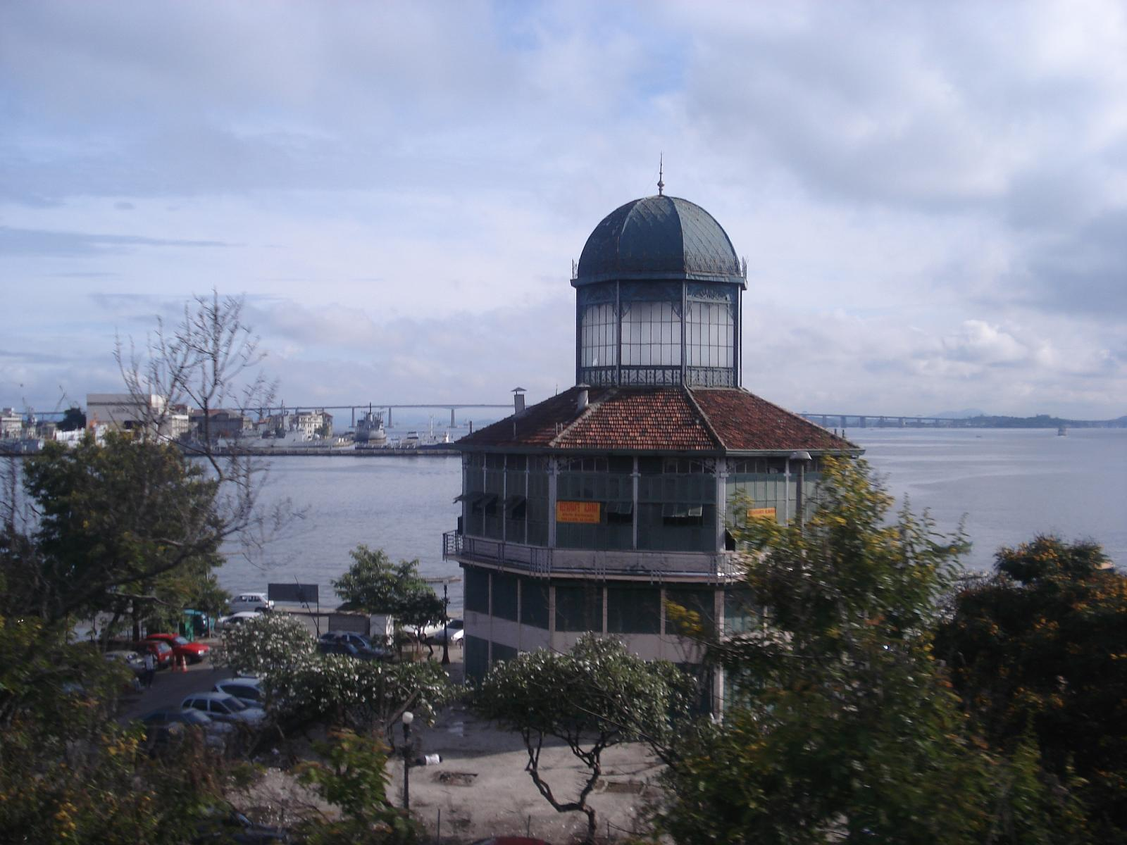 Pavillion remaining from the old Municipal Market (c.1903) of Rio de Janeiro, Brazil